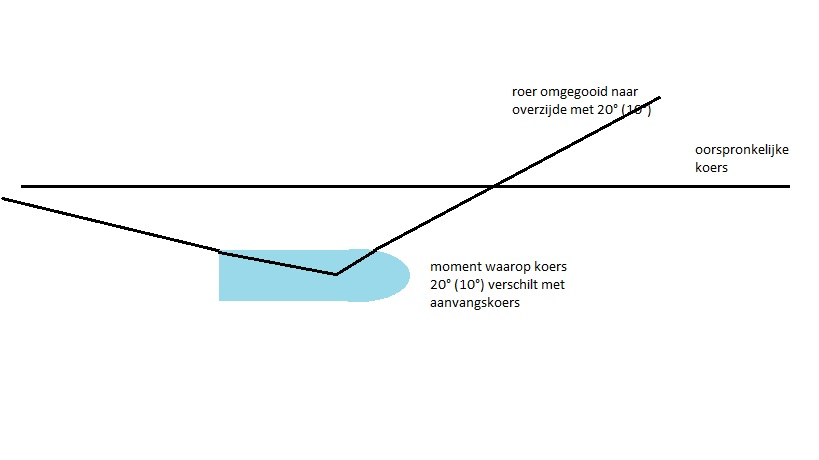 Op de moment dat de koers 20° (10°) met de oorspronkelijke koers verschilt wordt het roer 20° (10°) naar de andere zijde omgelegd.